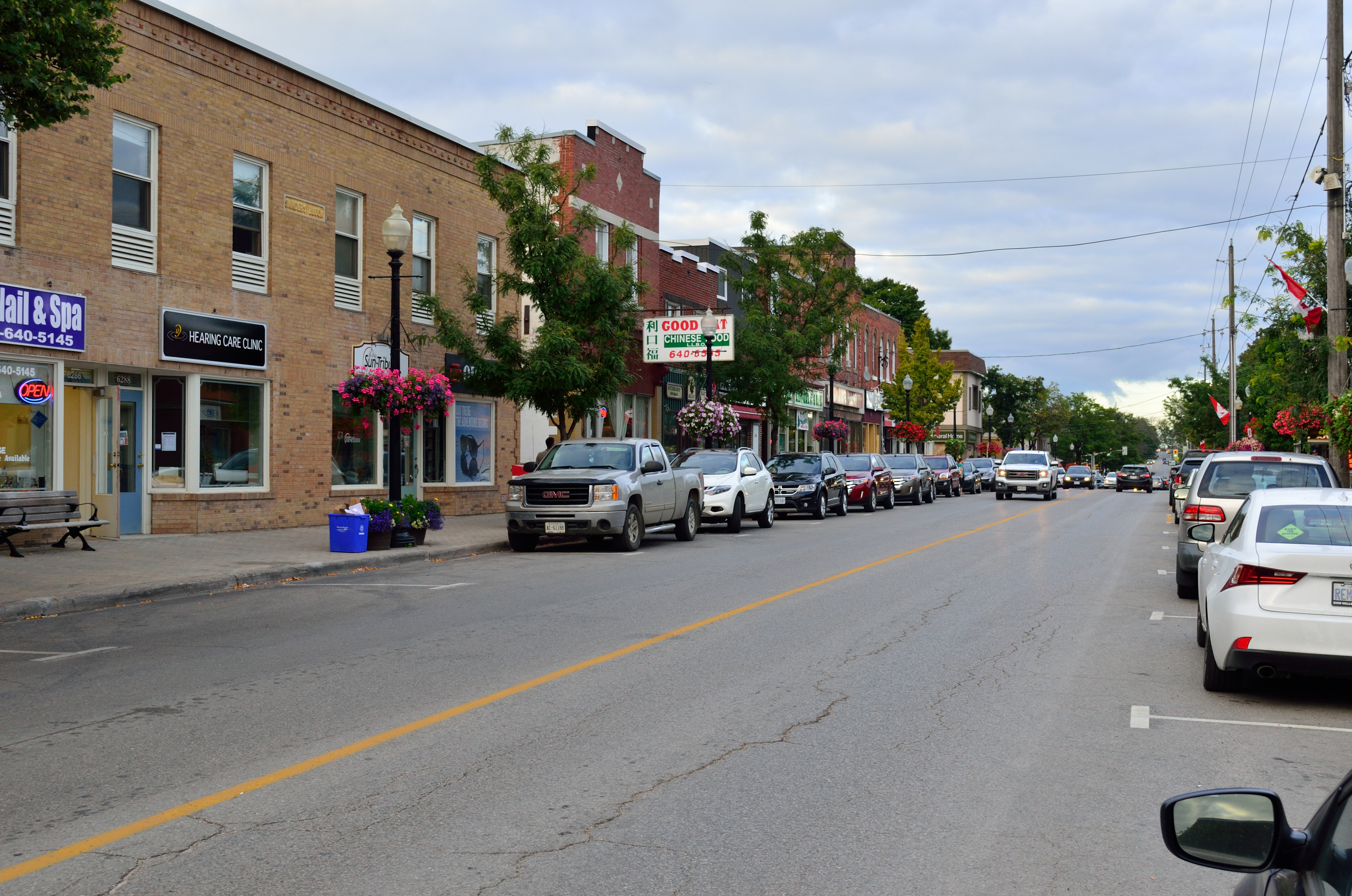 Main Steet, Whitchurch-Stouffville